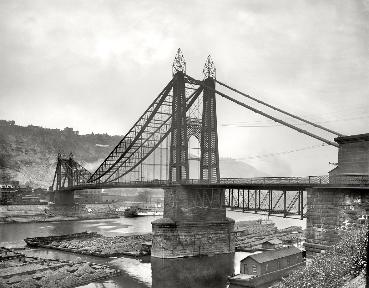 The original Point Bridge in Pittsburgh, Pennsylvania. Photo taken in 1900.